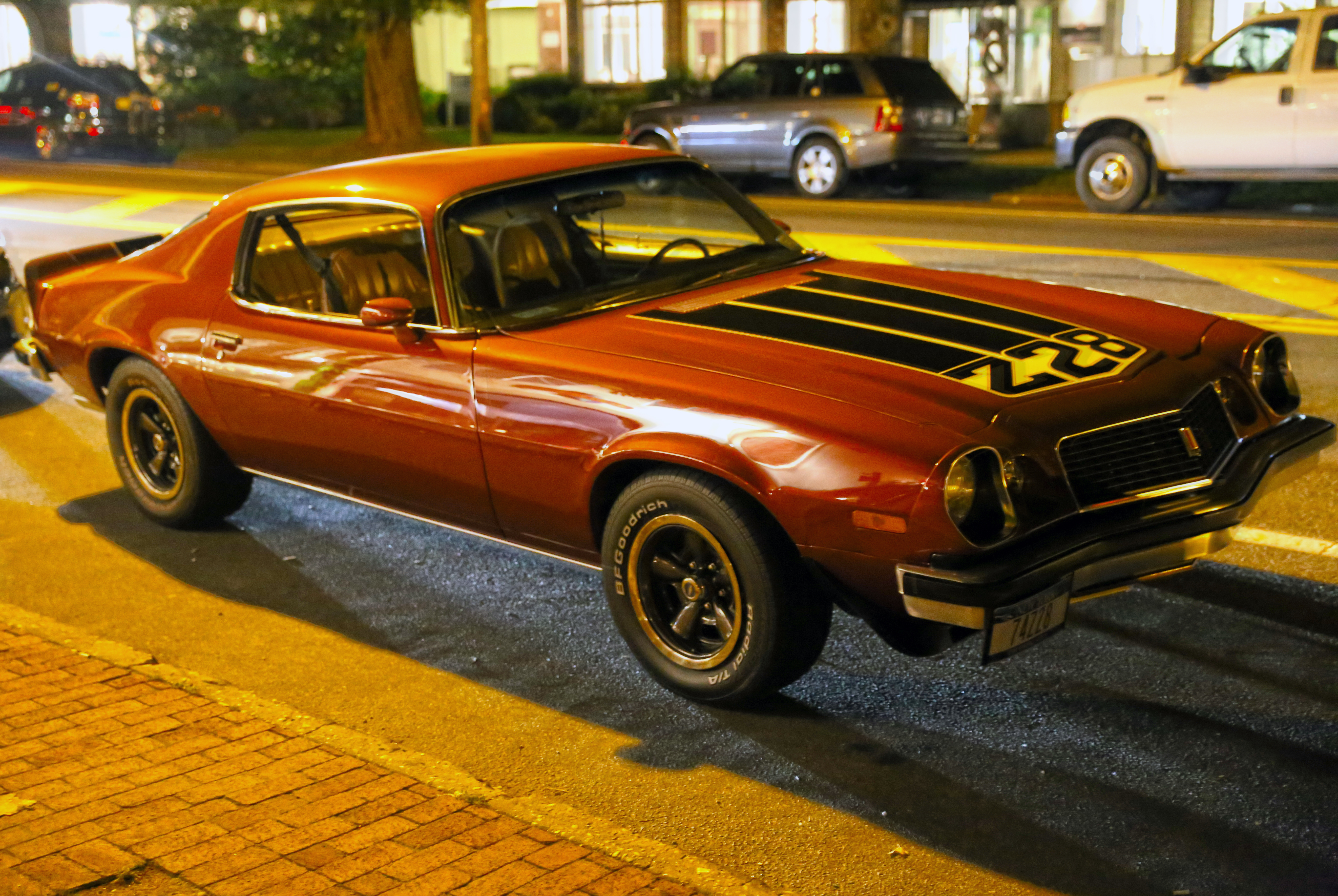 In Bridgehampton, late one evening. I didn't use a tripod or anything since there was such a steady flow of cars passing by.